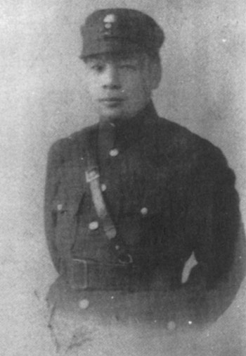 Chiang Ching-kuo in Kuomintang uniform.